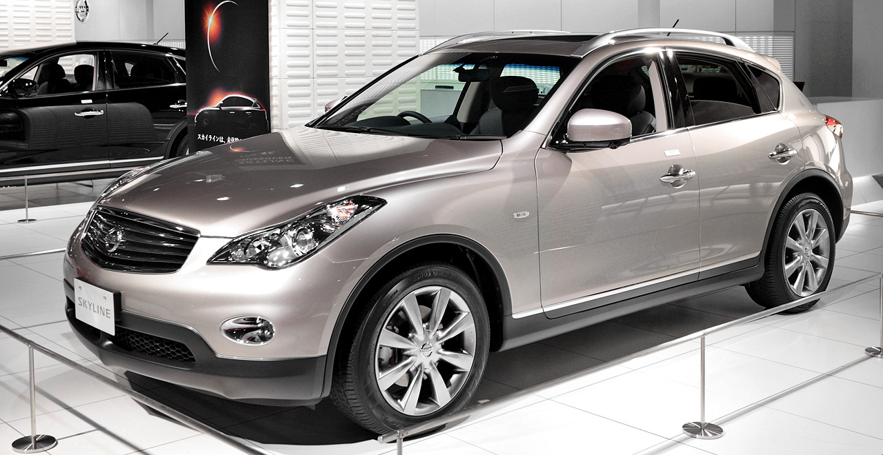 Nissan Skyline Crossover 370 GT